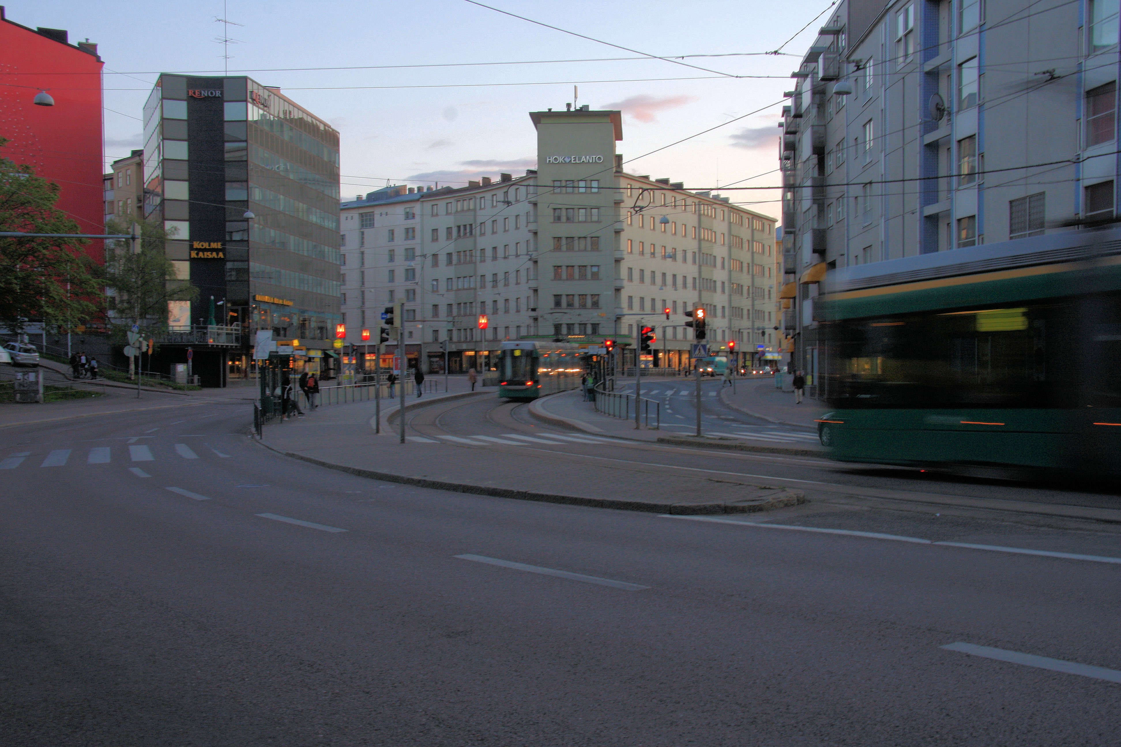 Kurvi, Sörnäinen, Helsinki, Finland.